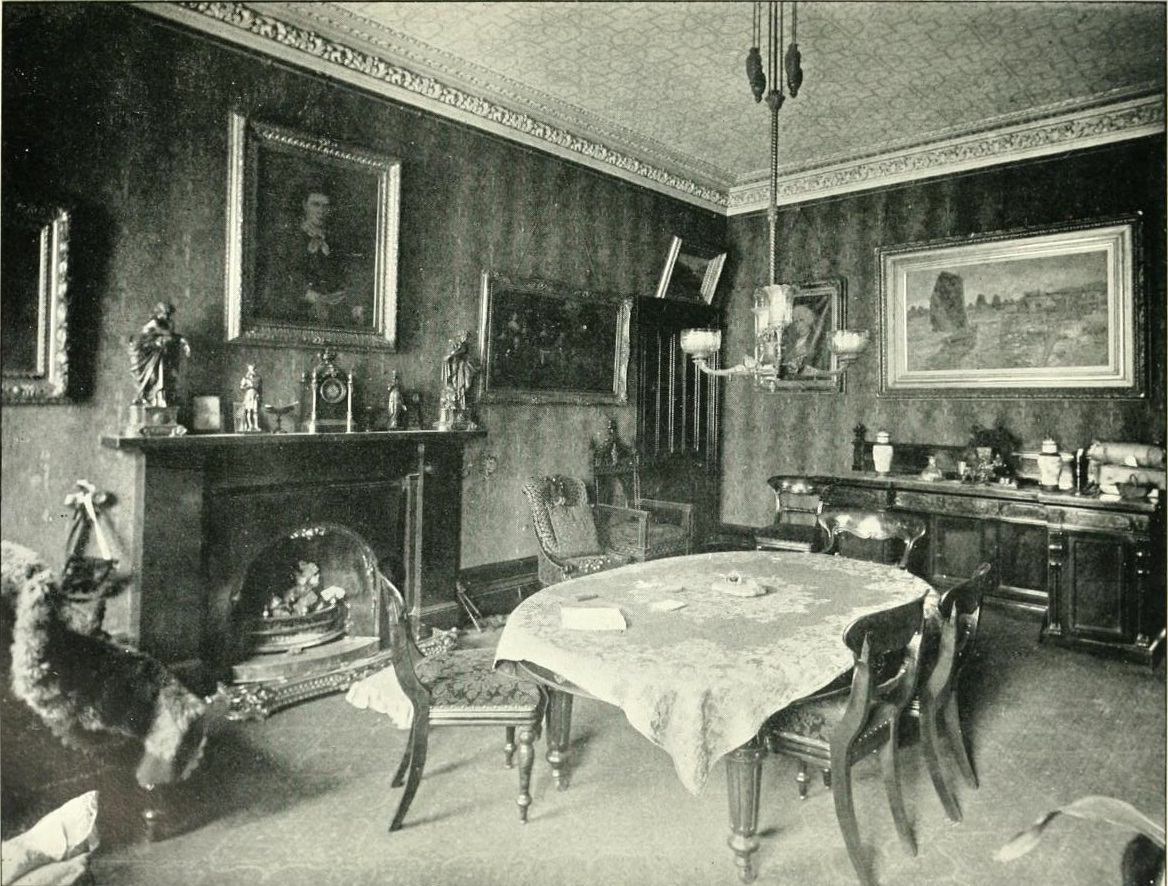 A part of the exhibit for the prosecution no. 5 / A cushion before the fireplace shows where the body was.